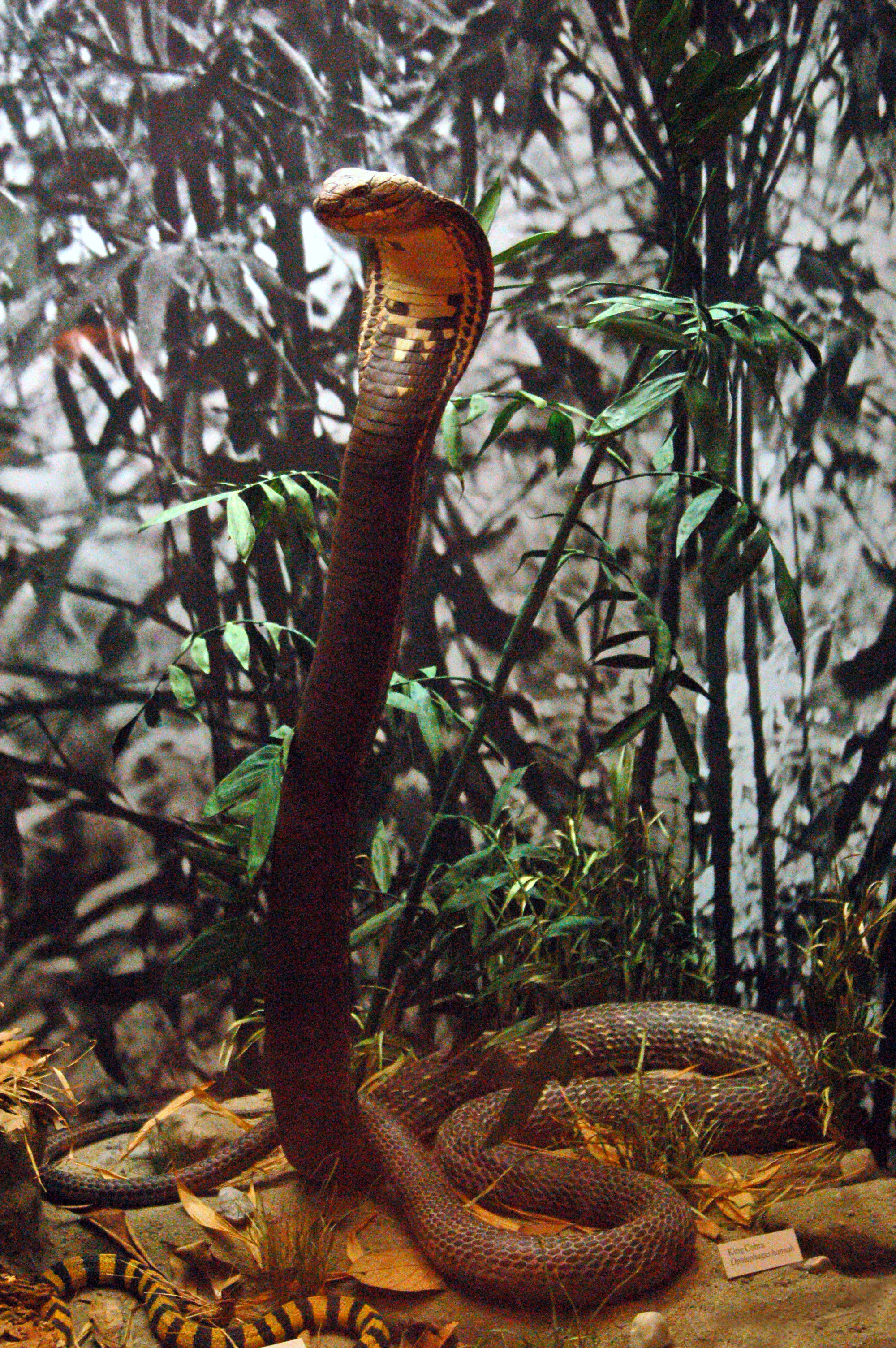 Ophiophagus hannah. Mounted specimen at the Royal Ontario Museum